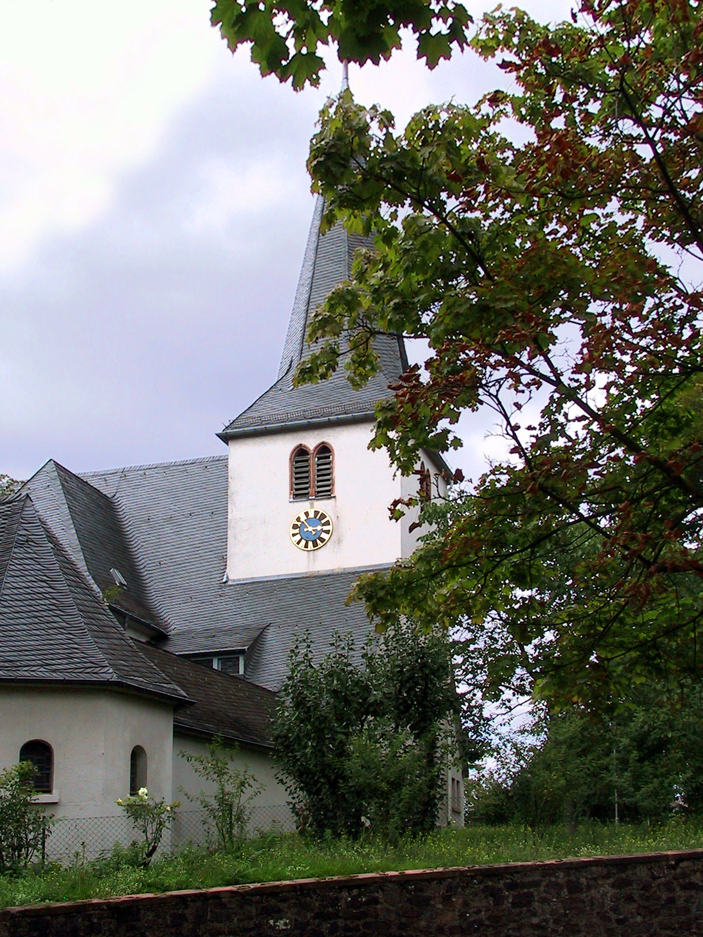 Church of Darmstadt-Bessungen, Germany